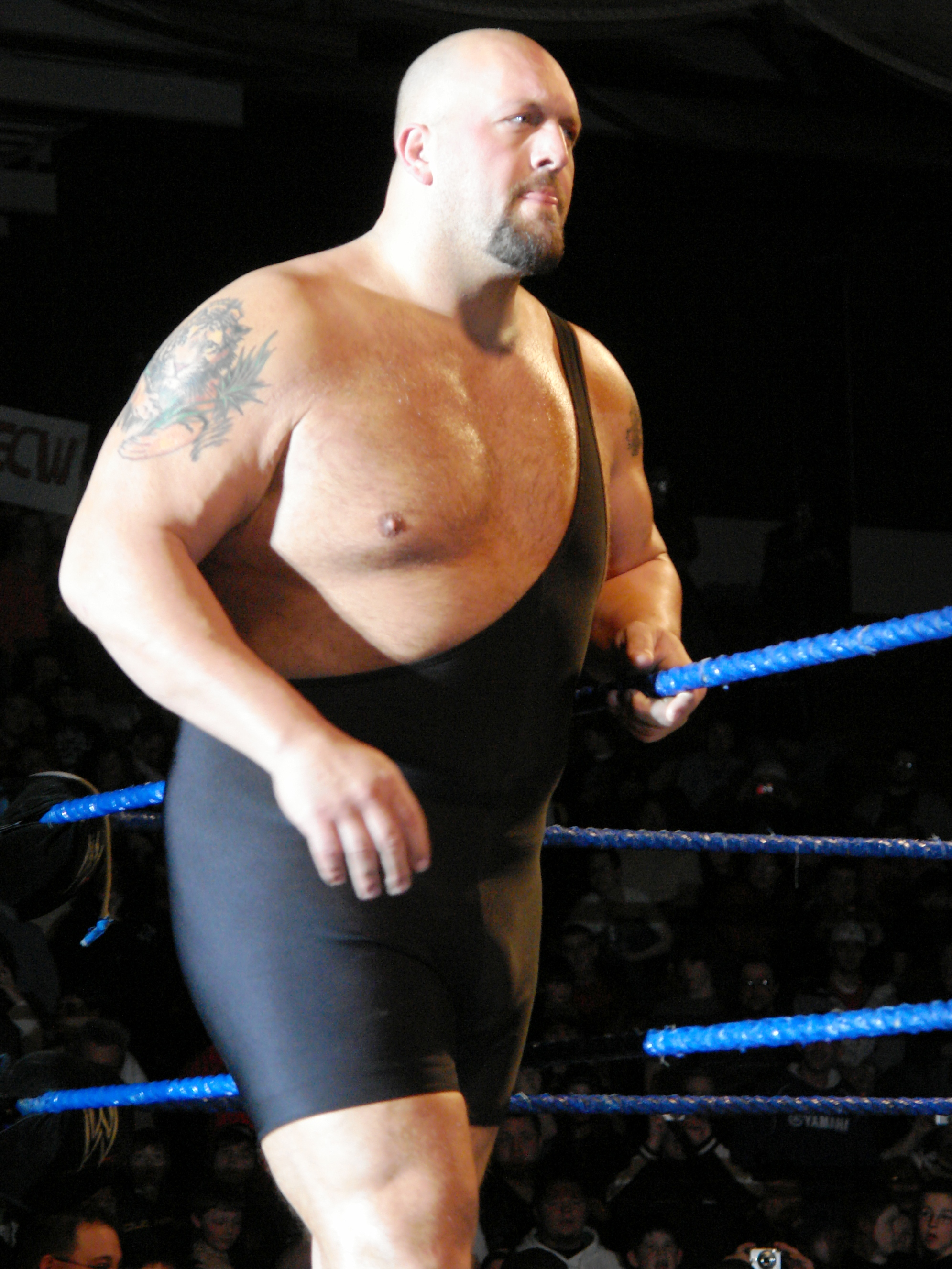 The Big Show at a SmackDown/ECW live event. Oshkosh, WI.